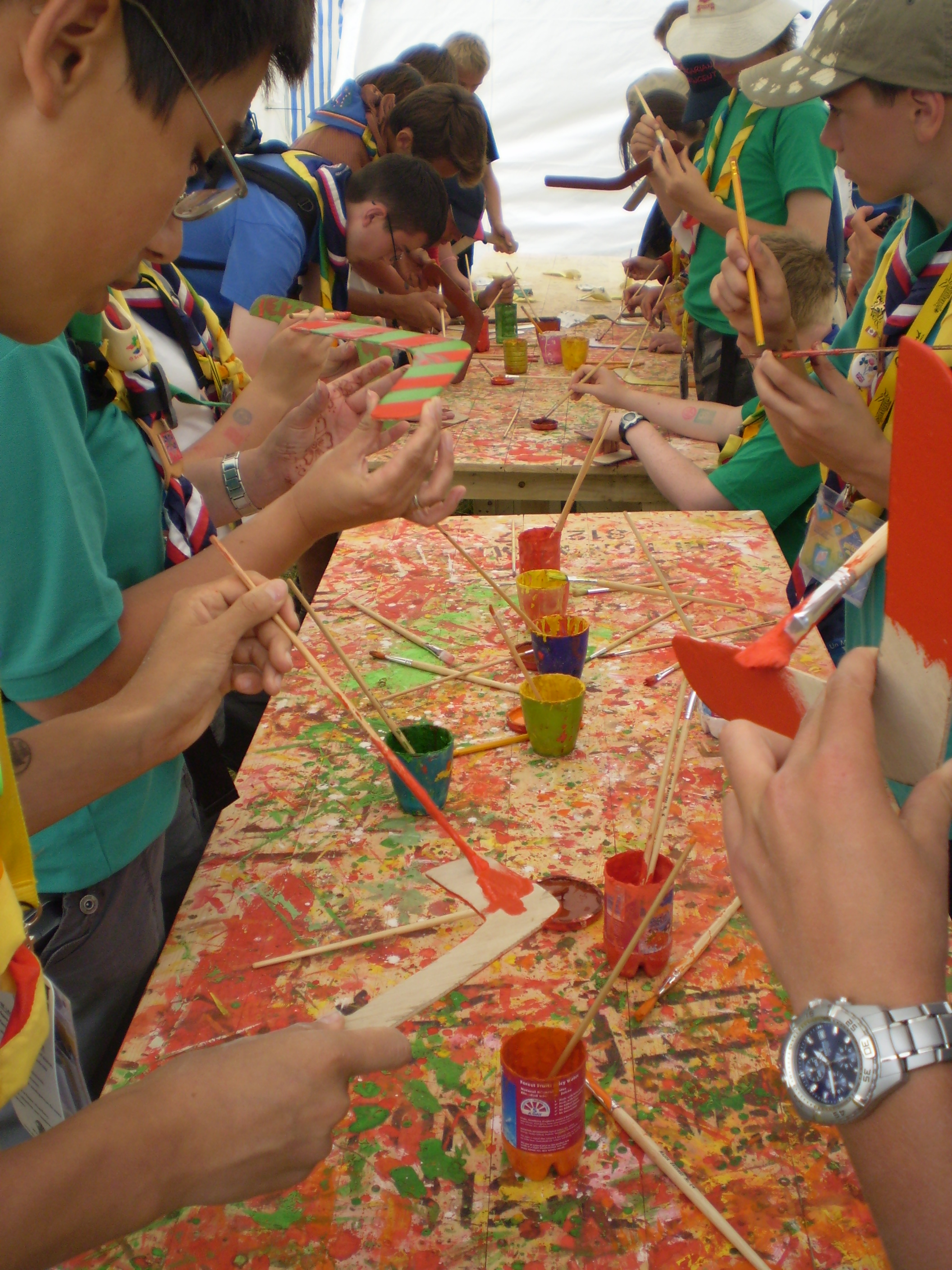 Making your own boomerang at AquaVille at the 21st World Scout Jamboree